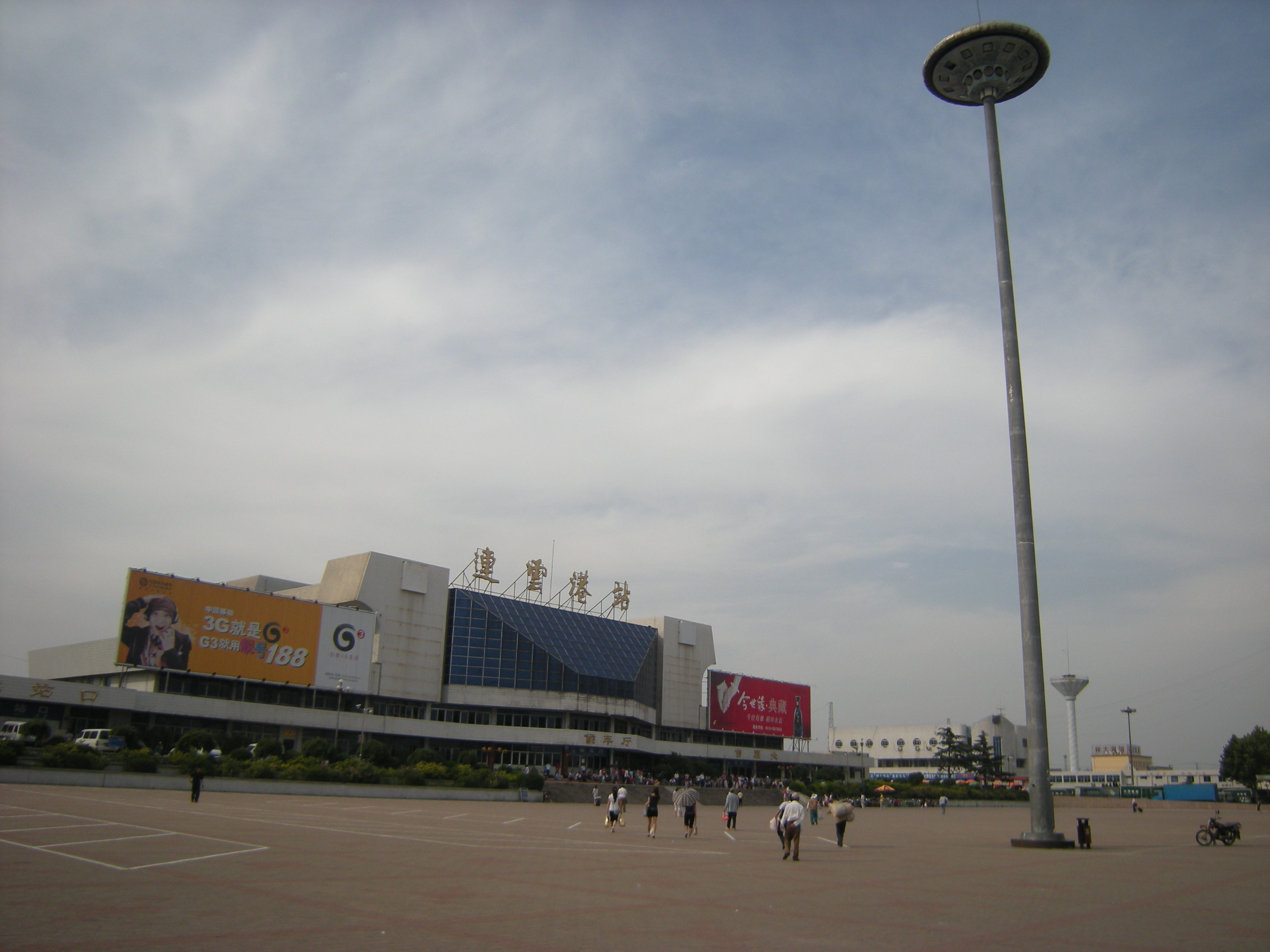 Square Of The Lianyungang Railway Station